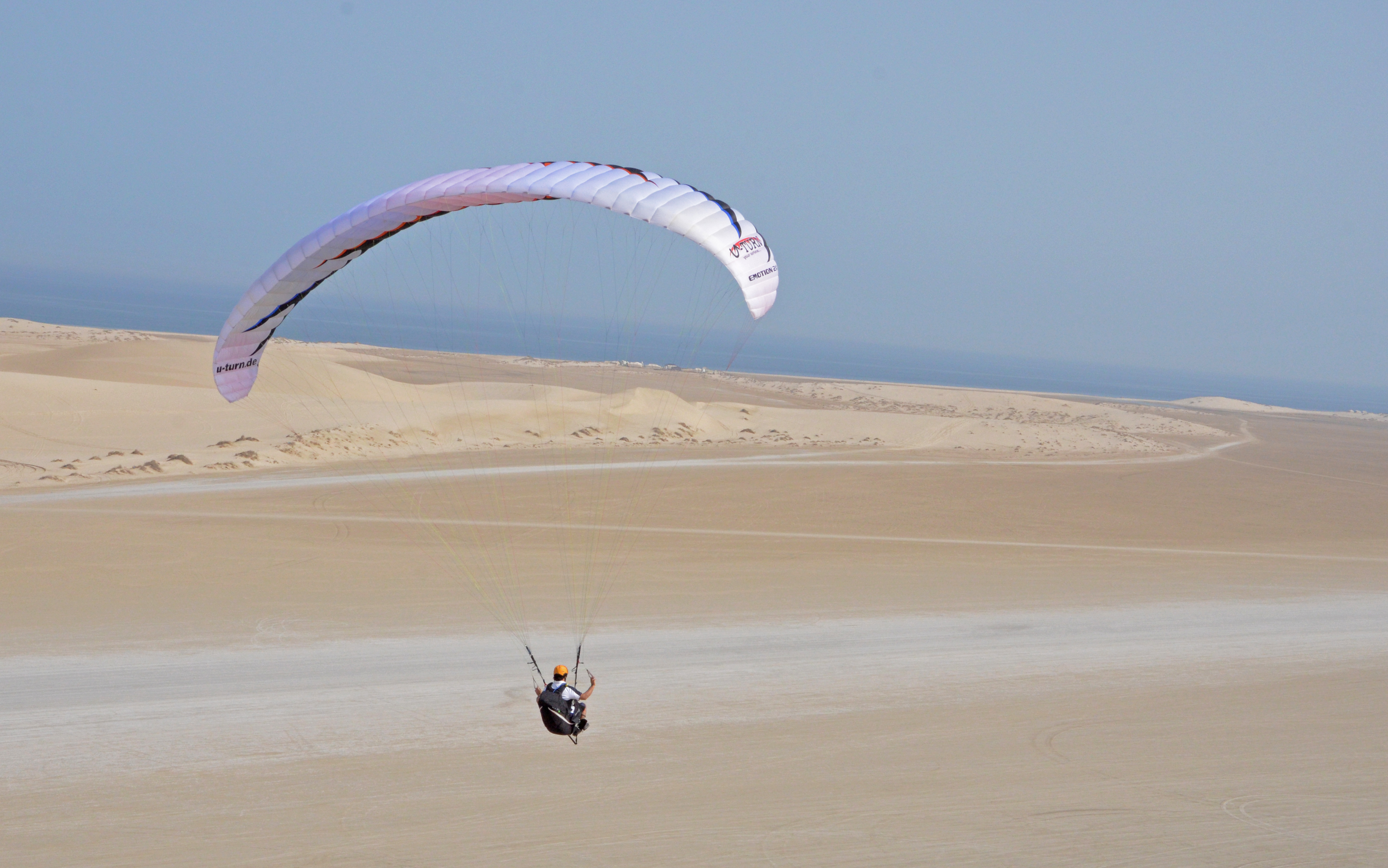 Paragliding in the Doha-desert (Quatar)